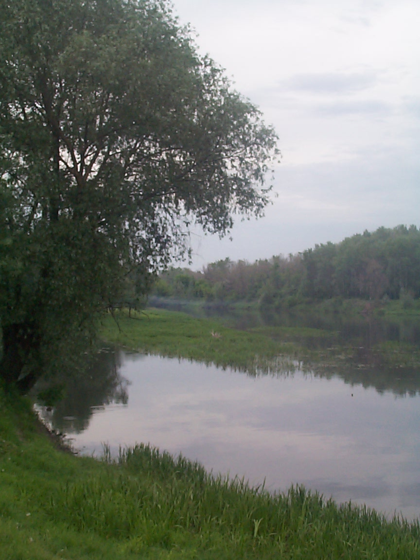 Severskii Donetz